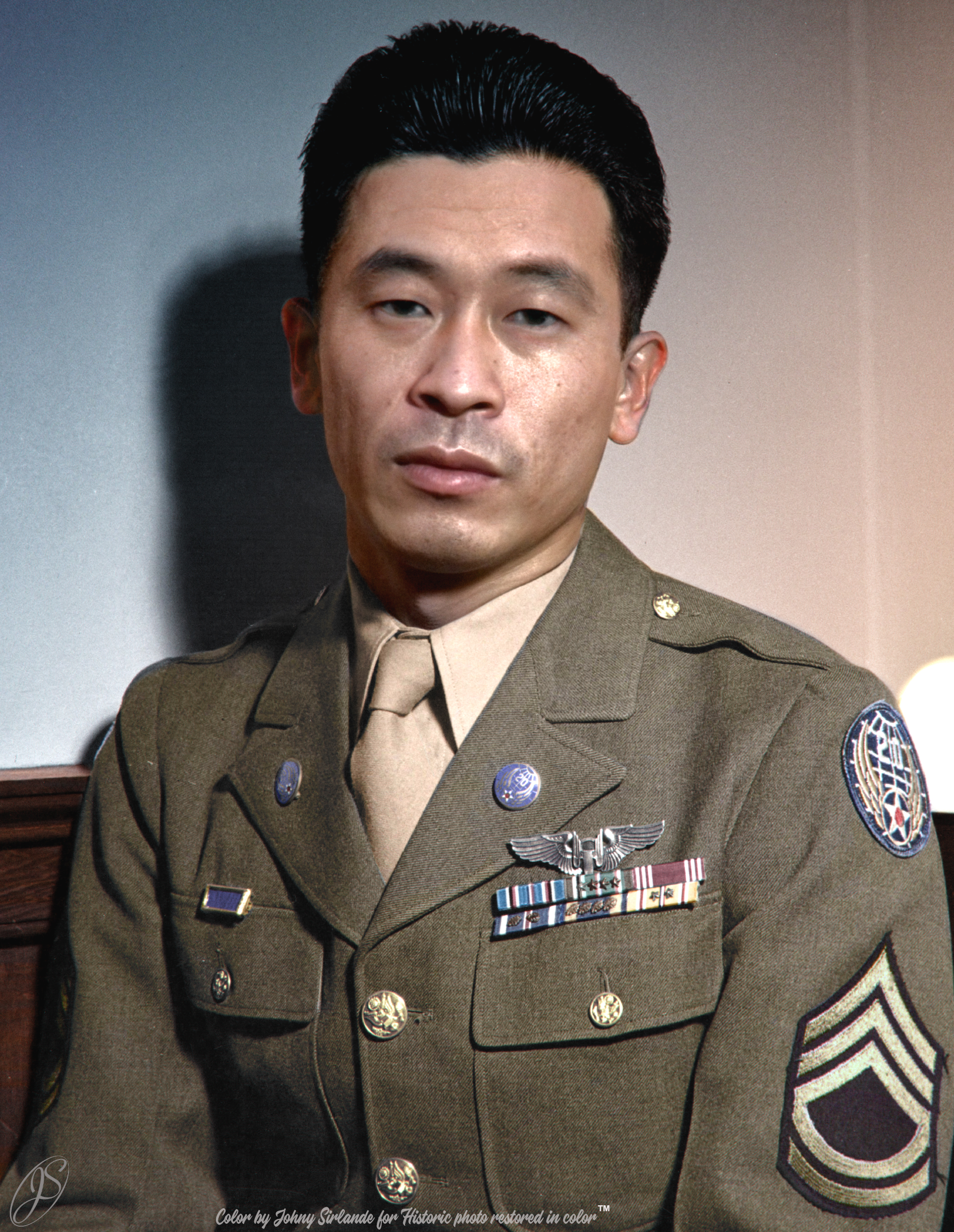 Ben Kuroki colorised by johnny sirlande for historic photo restored